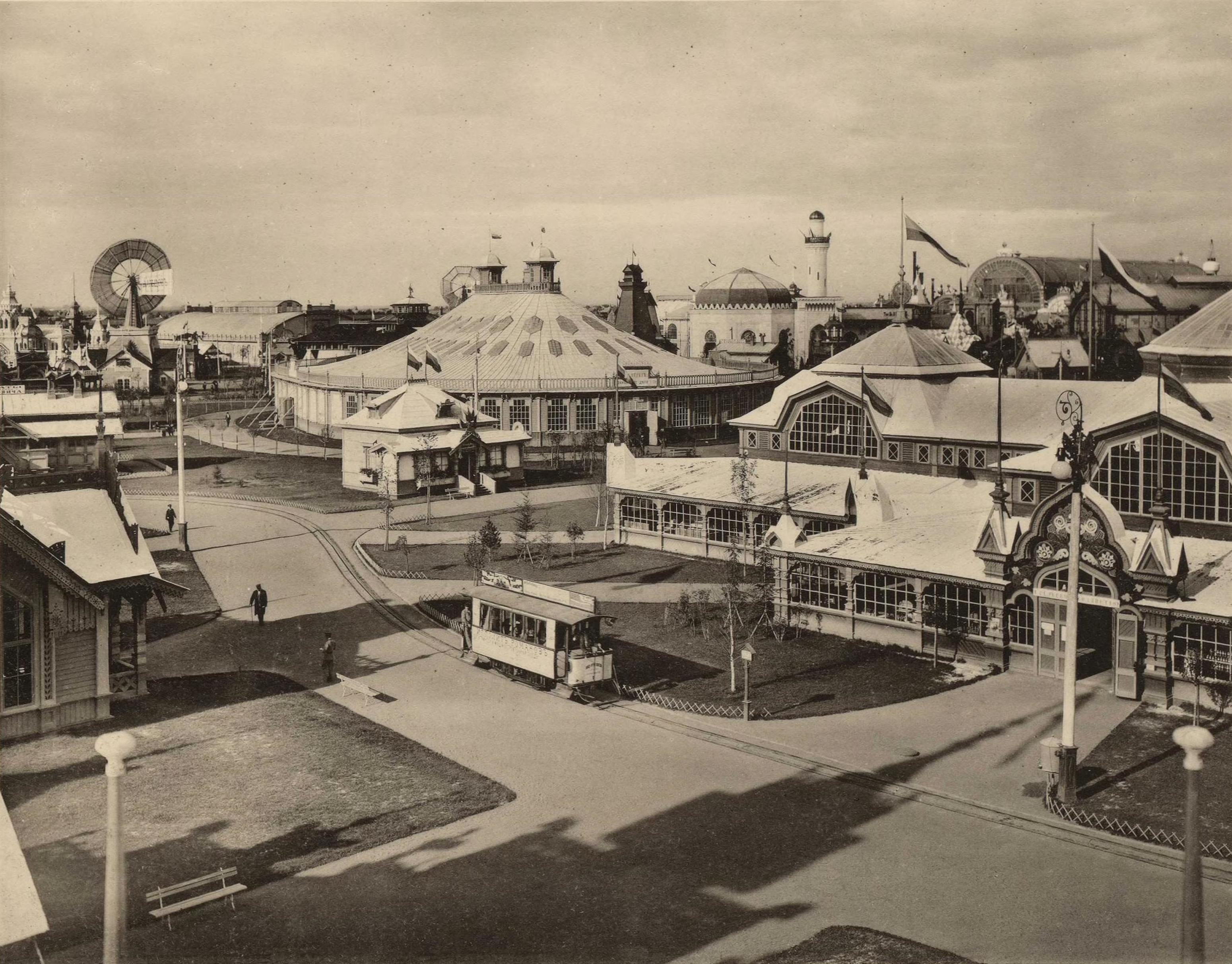 Oval pavilion - the world's first steel tensile structure by the great Russian engineer and scientist Vladimir Shukhov (1853-1939) in 1896. The All-Russia industrial and art exhibition 1896 in Nizhny Novgorod.